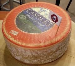 Casolet